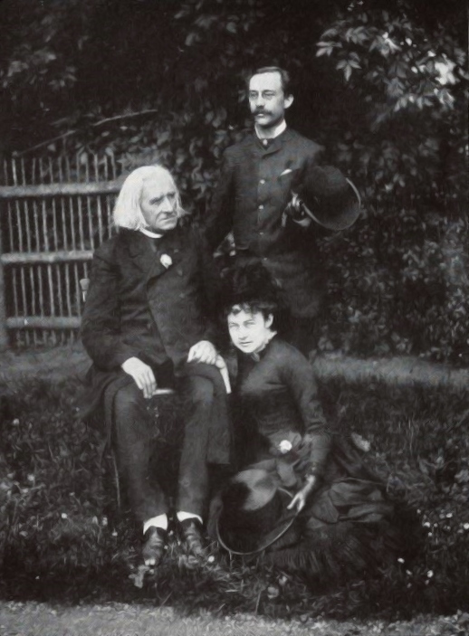 Franz Liszt and Carl and Caroline Lachmund at his gardens in Weimar, on page 36 of the June 1923 Shadowland. Carl Lachmund studied with Liszt from 1882 to 1884.